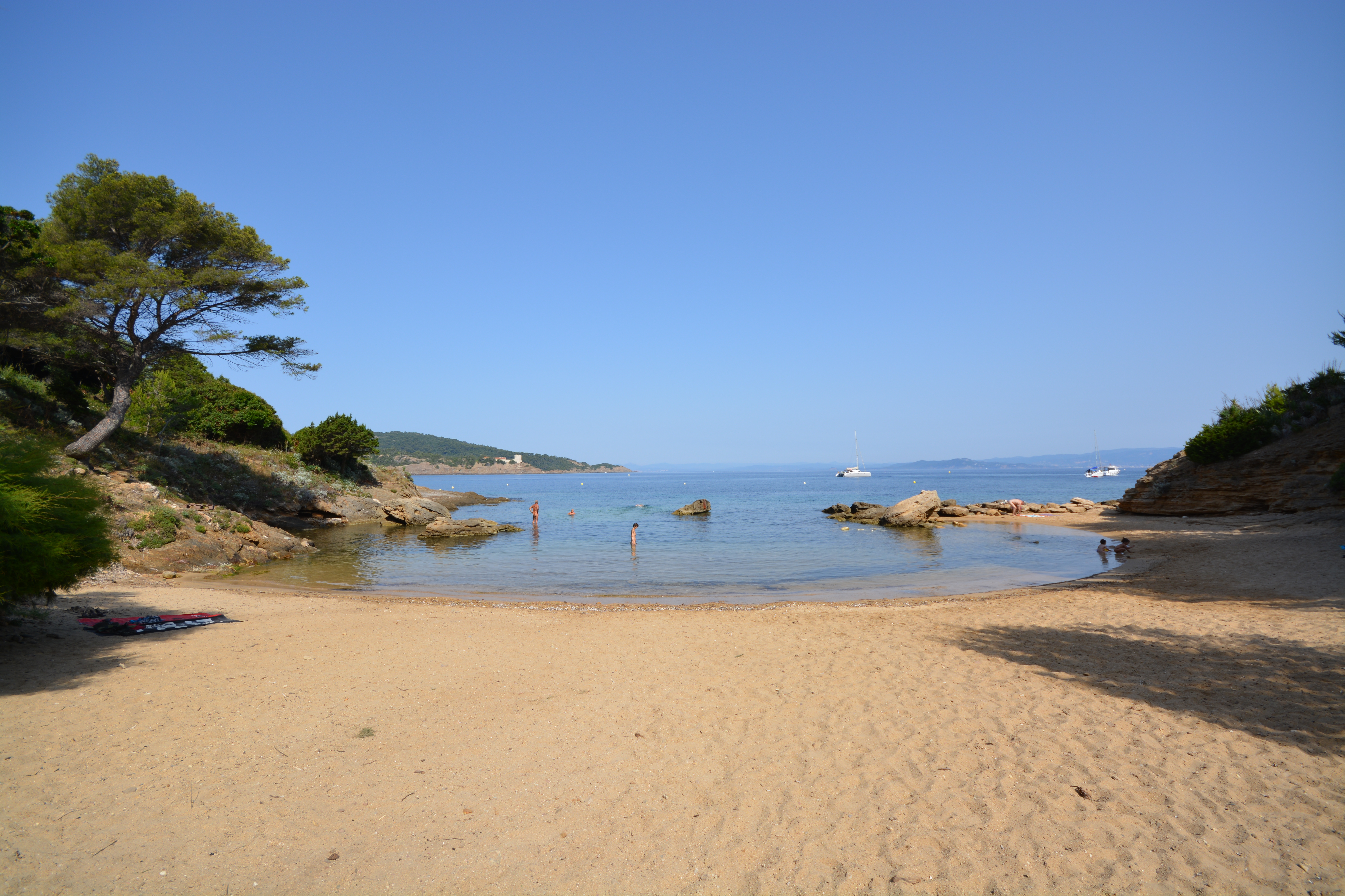 Sandy beach : les grottes